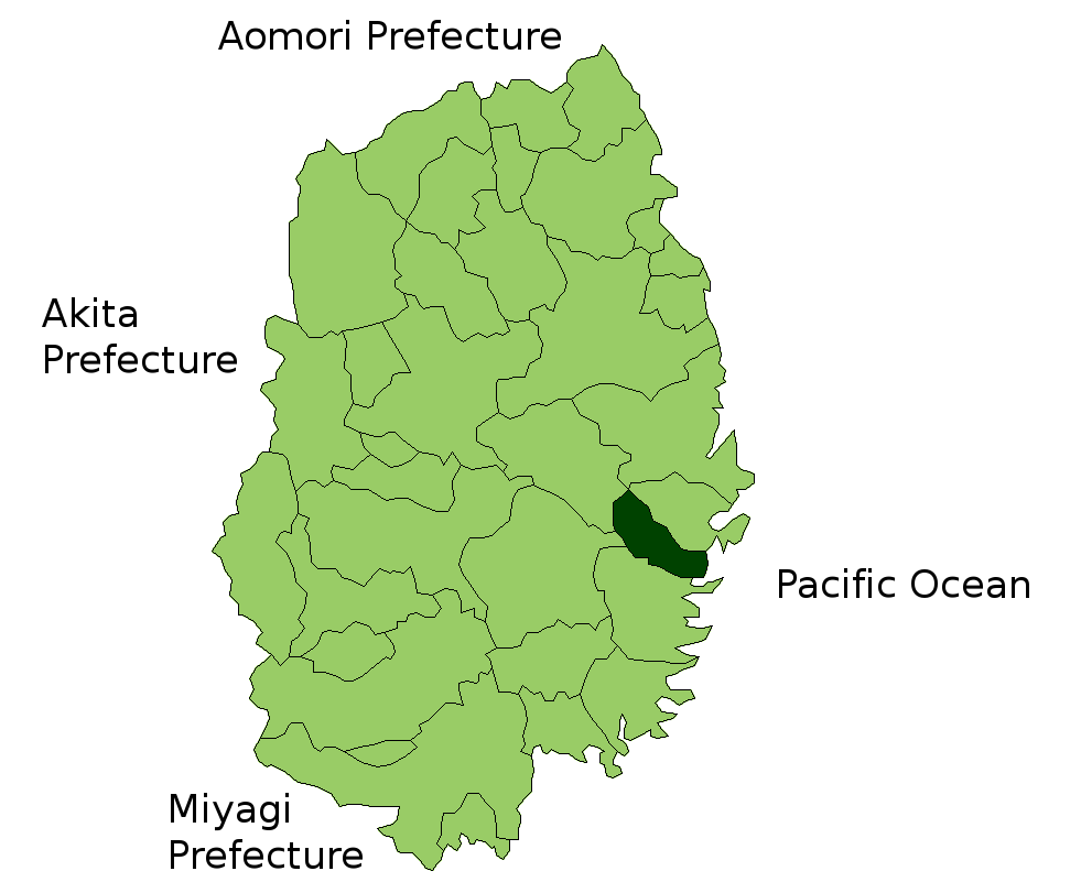 Location Map of Otsuchi in Iwate Prefecture, Japan